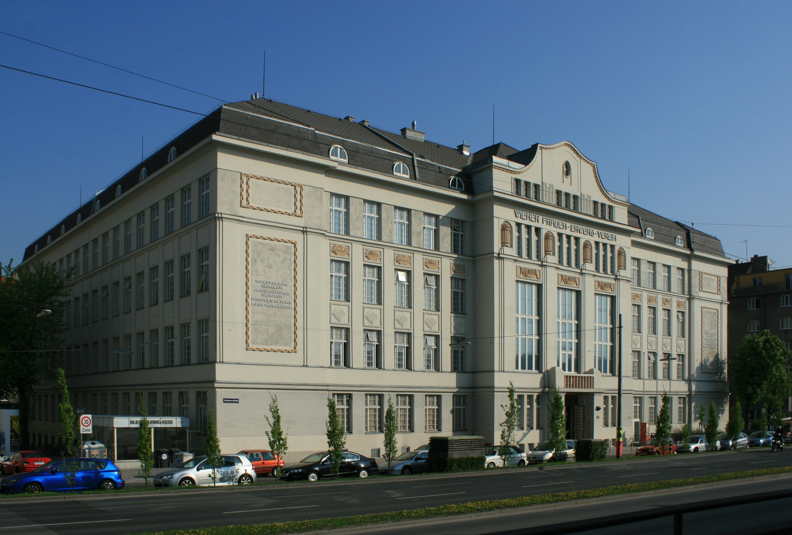 The Building on Wiedner Gürtel 68 (Vienna, Austria) in which both the Wiedner Gymnasium and the Sir-Karl-Popper-Schule (which is sort of a "division" of the Wiedner Gymnasium) are located.